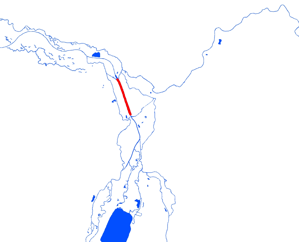 The Waterknot of Leipzig with the Elsterbecken (in red)